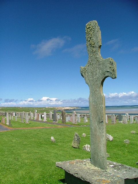 Stone Cross, Kilnave. In the grounds of the cemetery is a ruined chapel. This could well be the site of the church where about thirty Macleans of Mull took refuge after the battle in 1598 at the head of Loch Gruinart with the local Macdonalds. The Macdonalds set fire to the church and all the Macleans were burnt to death.